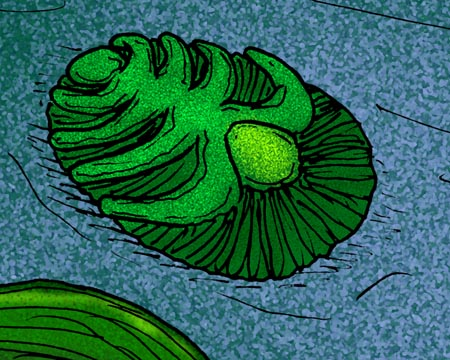 Reconstruction of the Ediacaran proarticulatan Praecambridium sigillum of Precambrian Australia.